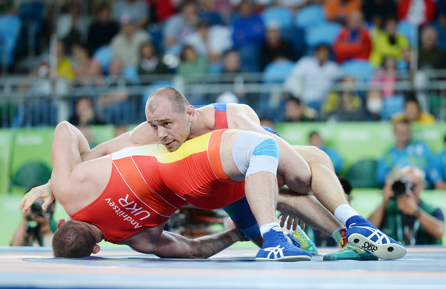 Wrestling at the 2016 Summer Olympics, Gazyumov vs Andriitsev